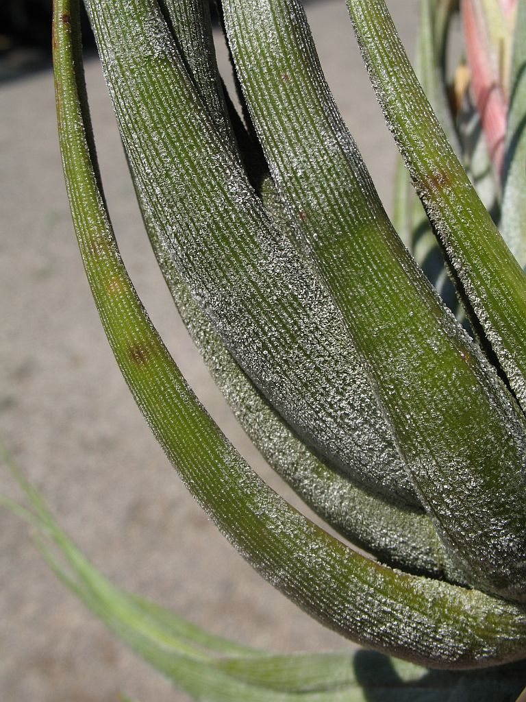 Tillandsia circinnatoides in cultivation at the Botanical Garden of Heidelberg, Germany.